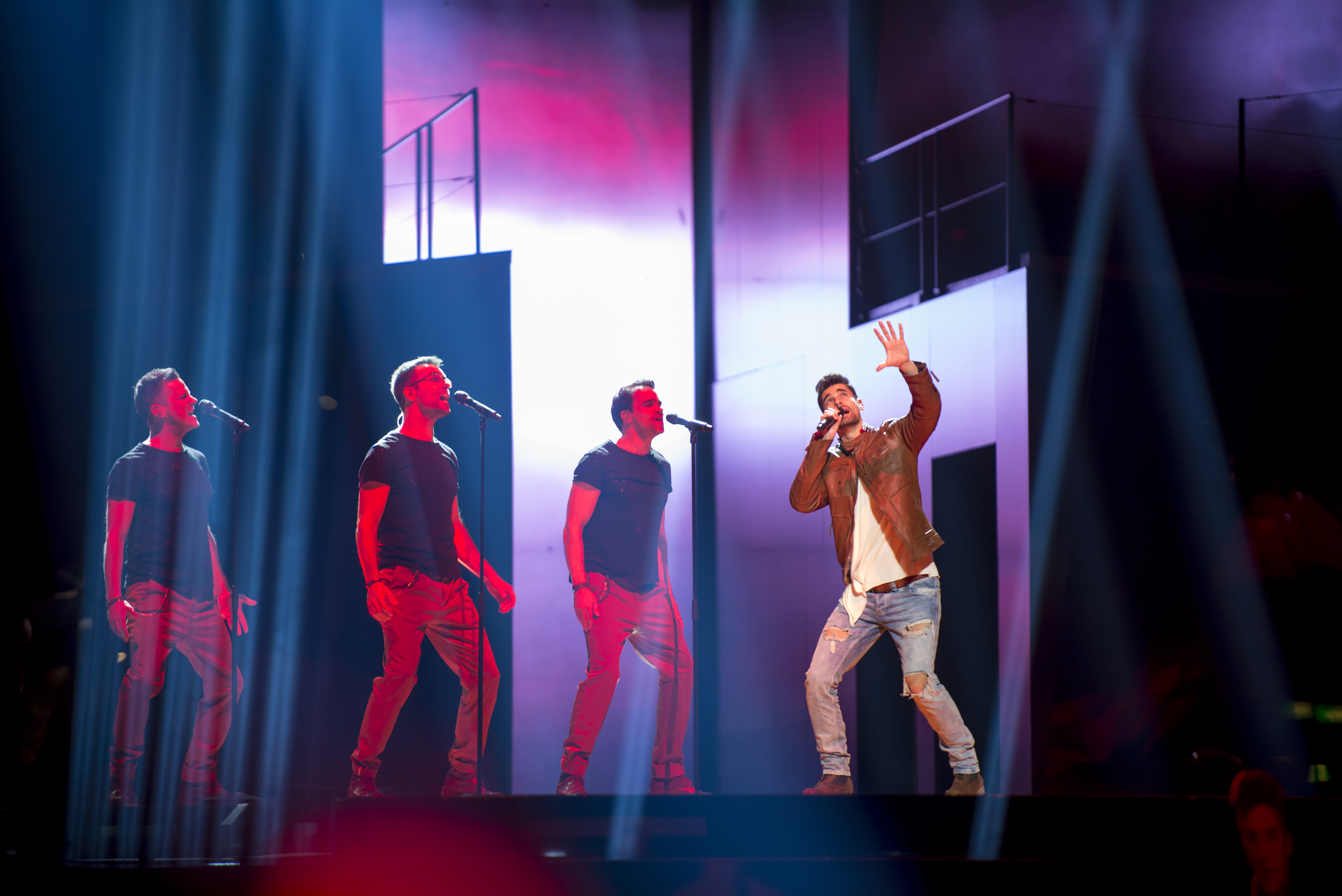 Freddie representing Hungary with the song "Pioneer" during a rehearsal before the first semi final of the Eurovision Song Contest 2016 in Stockholm. (Help translate this text)